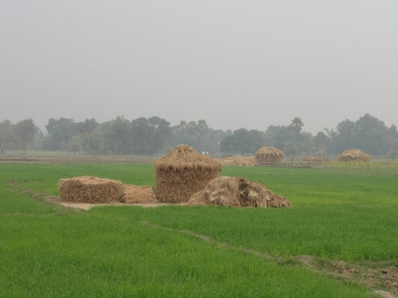 orro fields